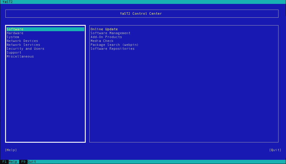 Yast2 Ncurses interface in OpenSUSE 11.1